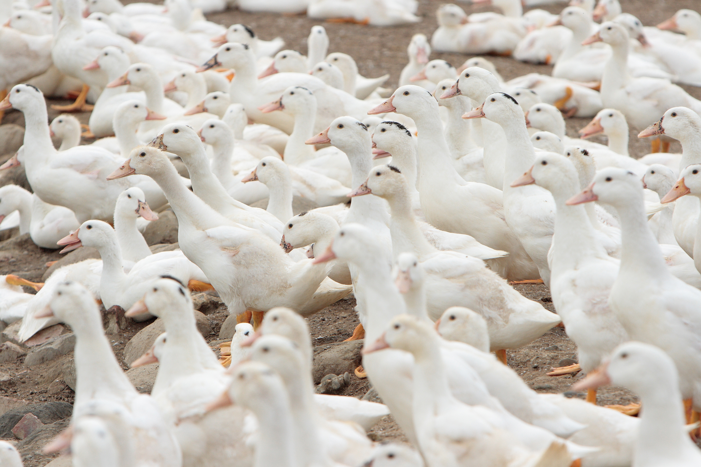 A duck farm in Taiwan.